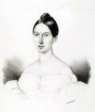 Lithograph portrait of Caroline Unger Artist: Unknown Published in: Ridolofi, Cantò in Livorno l'Autunno del 1834 Date of publication: 1834